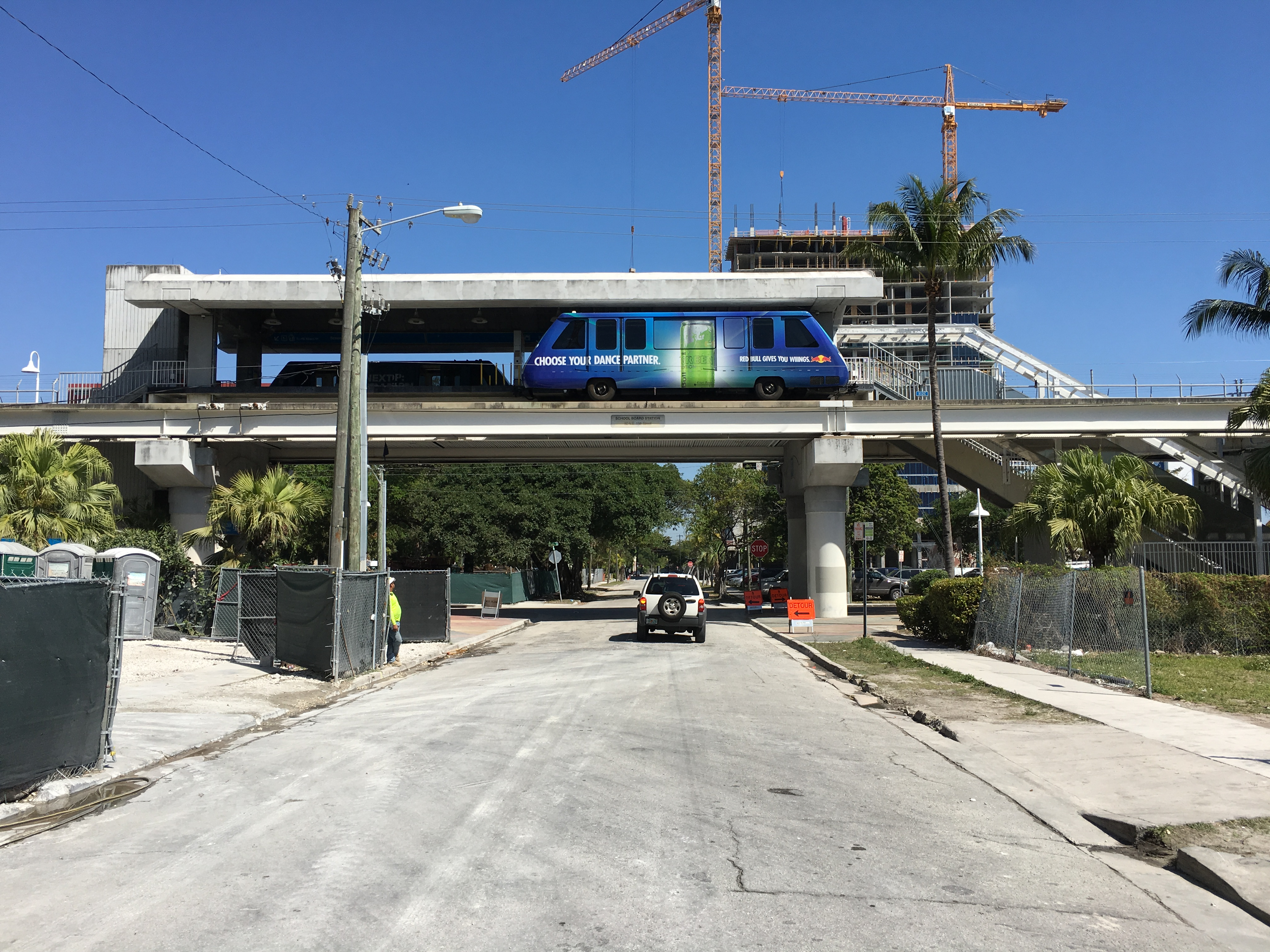 School Board station in early 2017 as nearby apartment projects were under construction.